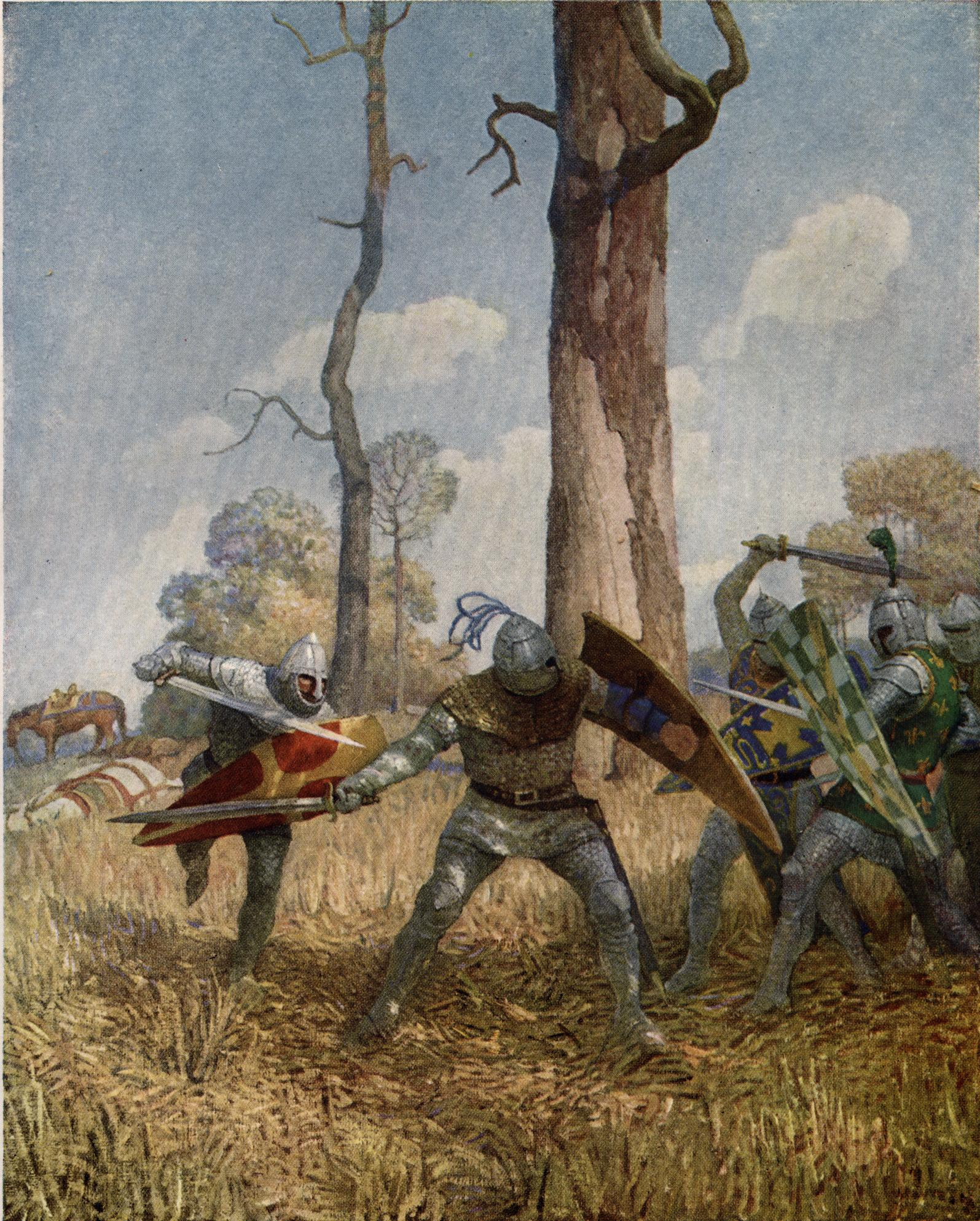 Illustration from page 162 of The Boy's King Arthur: the slaying of Sir Lamorak - "They fought with him on foot more than three hours, both before him and behind him."